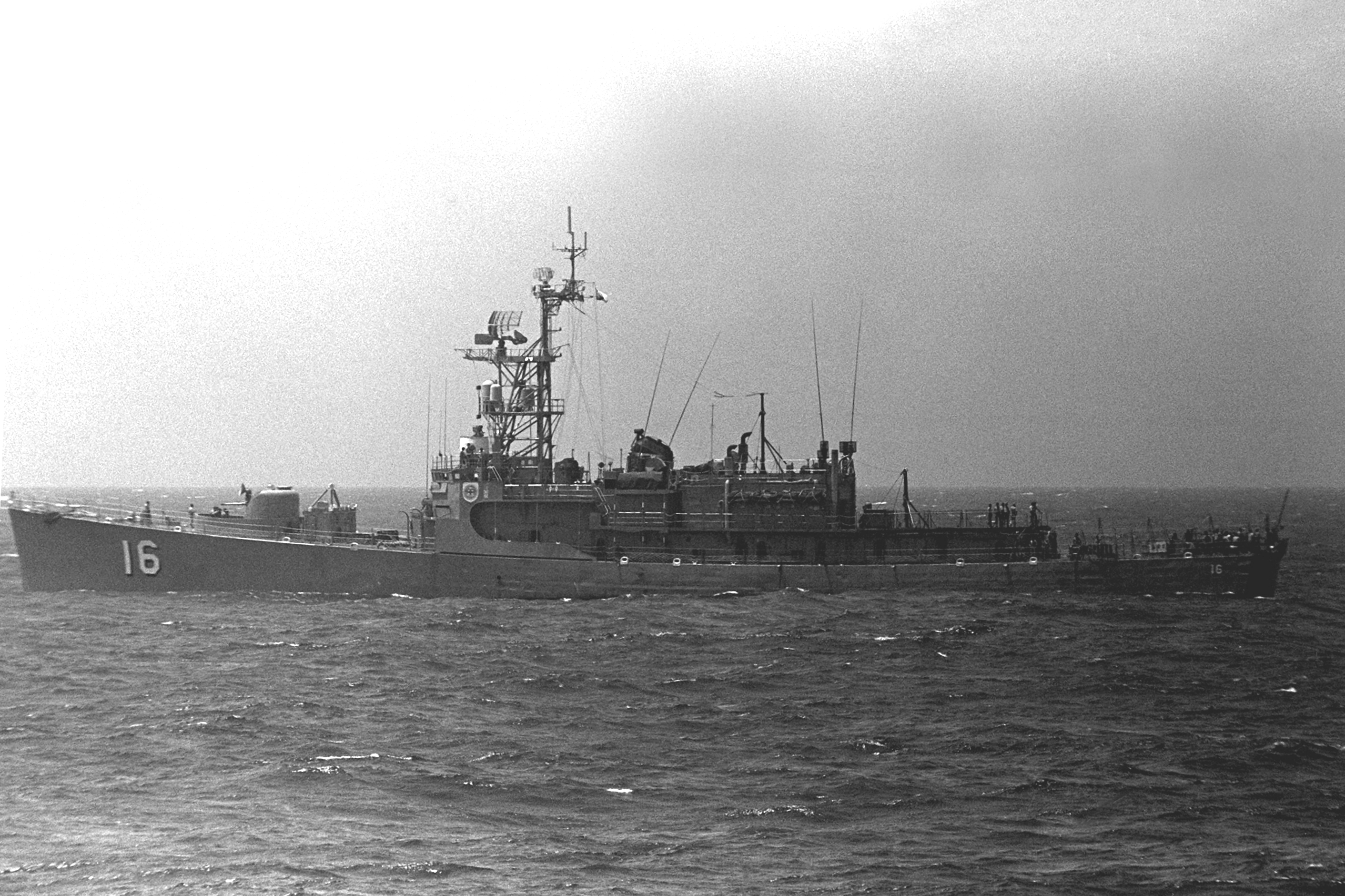 The Colombian frigate Boyaca (DE-16), ex-USS Hartley (DE-1029), off Cartagena, Colombia, during exercise Unitas XX.